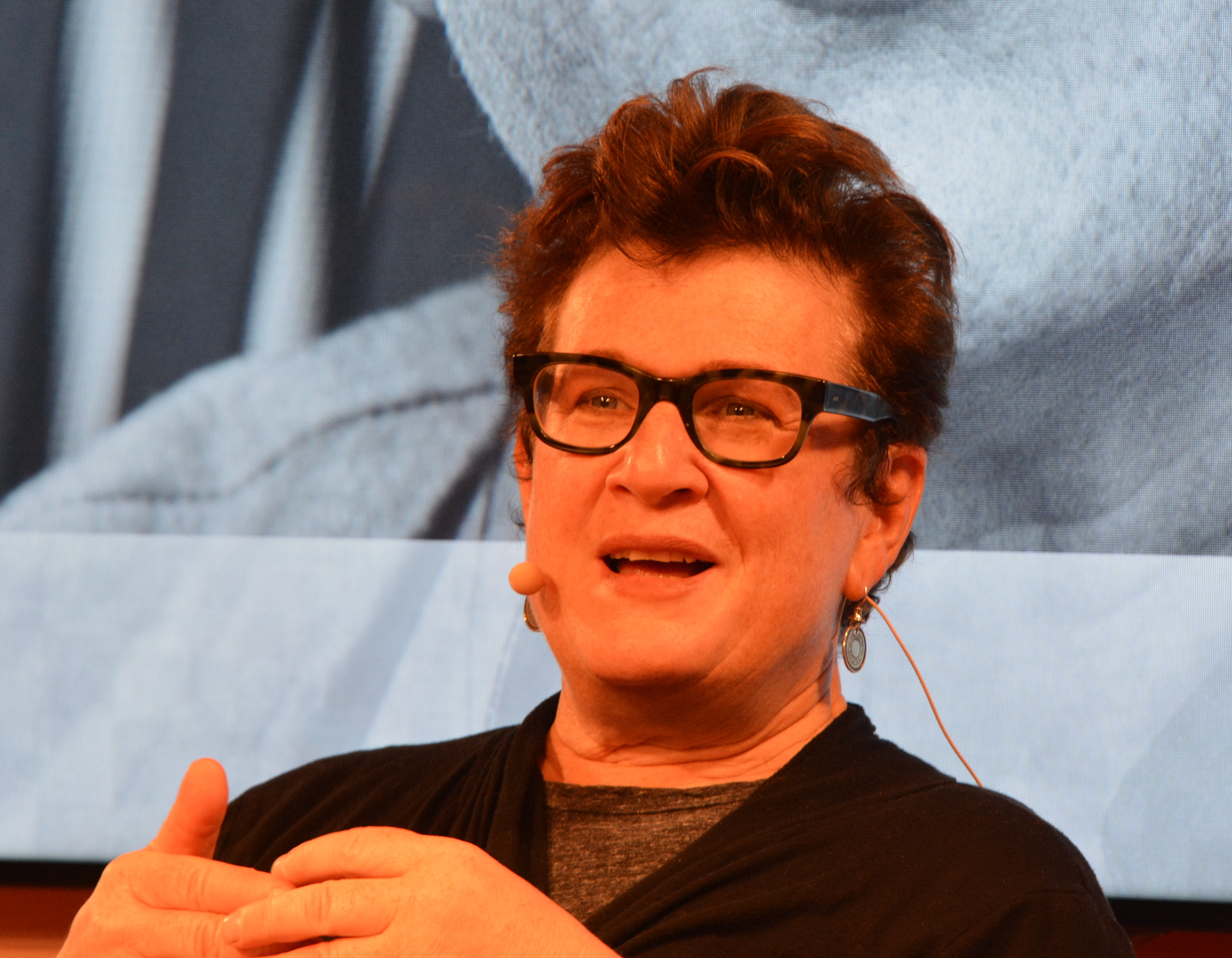 Meg Rossof on the Gothenburg Book Fair 2016